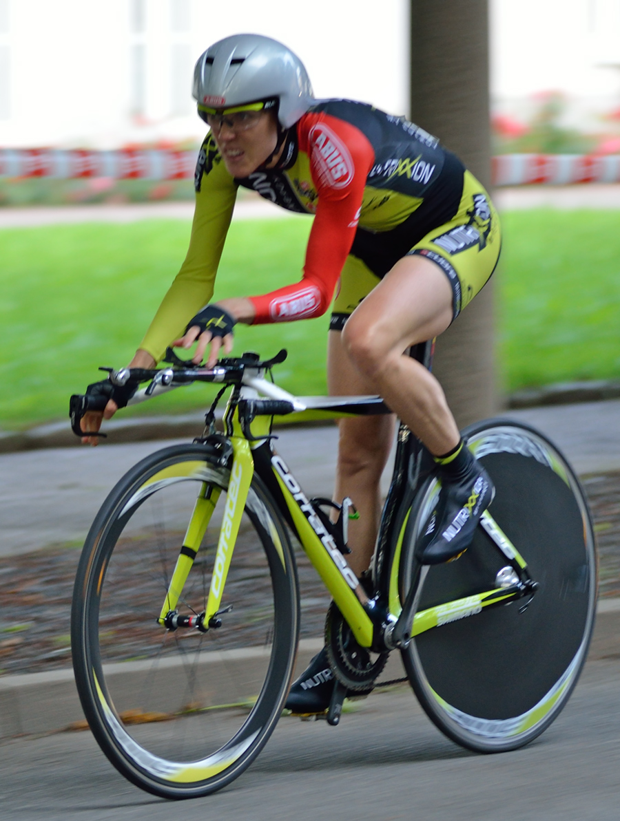 Rachel Neylan from the Abus Nutrixxion team during the Women's Tour of Thuringia 2012 in Zwickau, Germany.